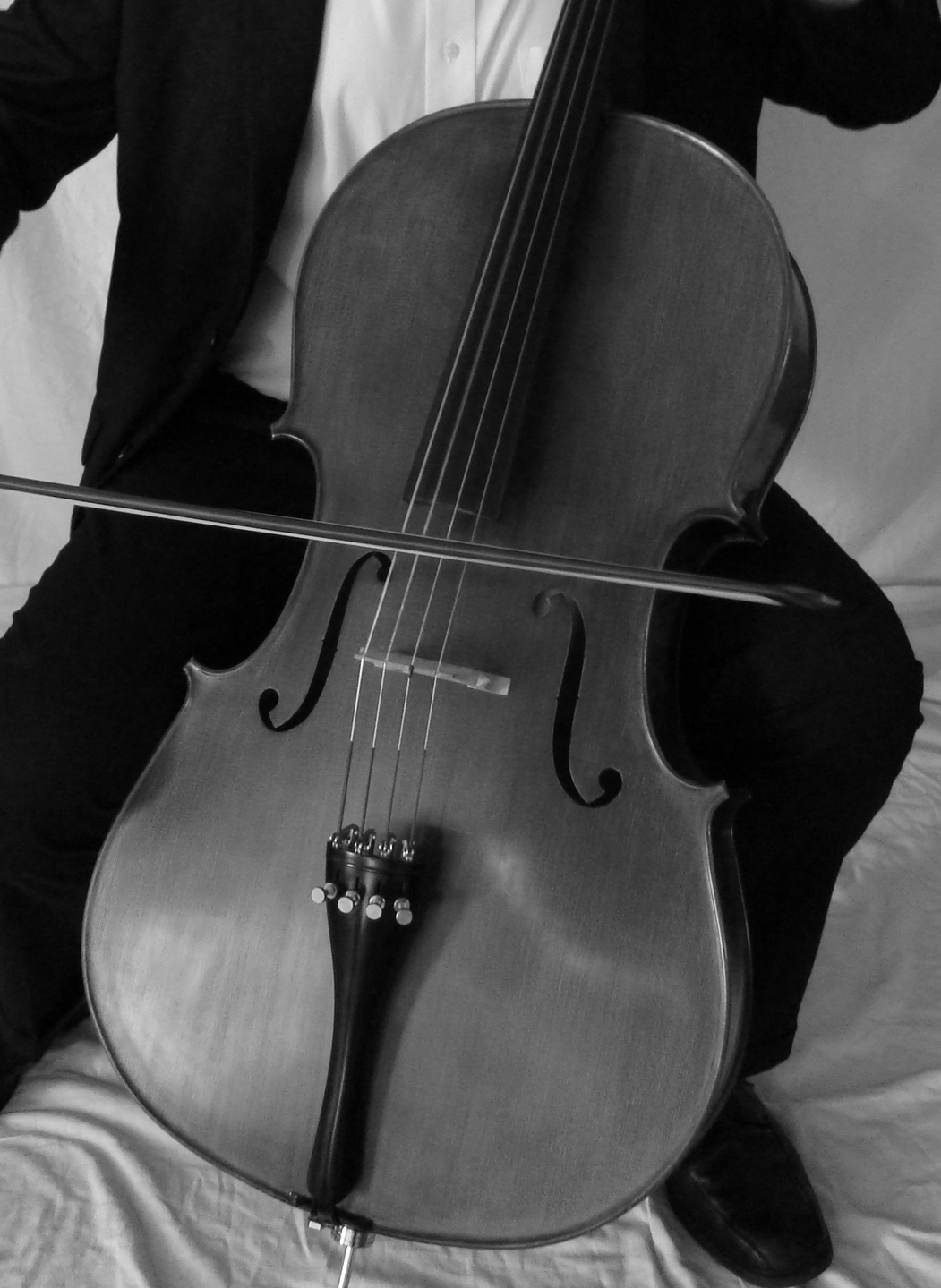 The Photo Shows Proper Bow Placement for the Cello